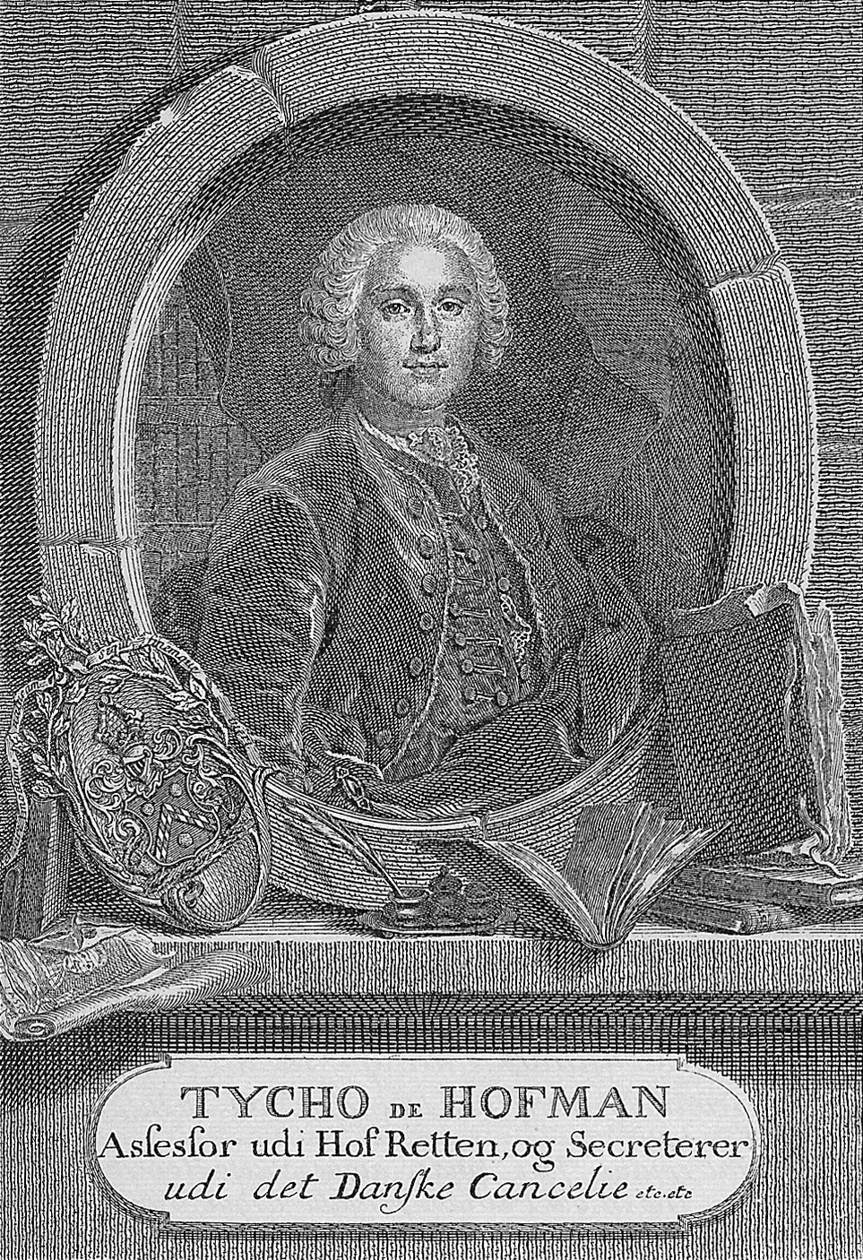 Tycho de Hofman